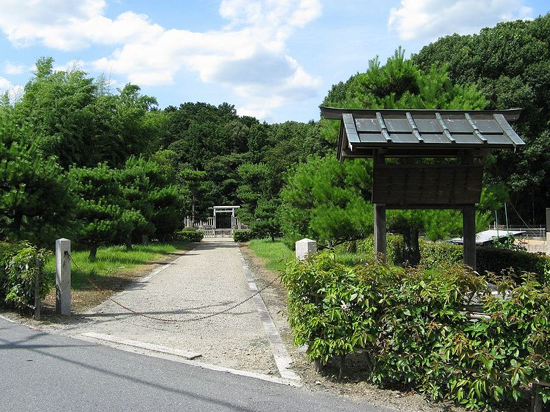 Official mausoleum of Japanese Emperor Ankō (安康天皇) shot from outside the tomb site (安康天皇陵 敷地外から撮影).